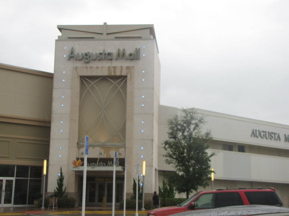 Entrance to the Augusta Mall